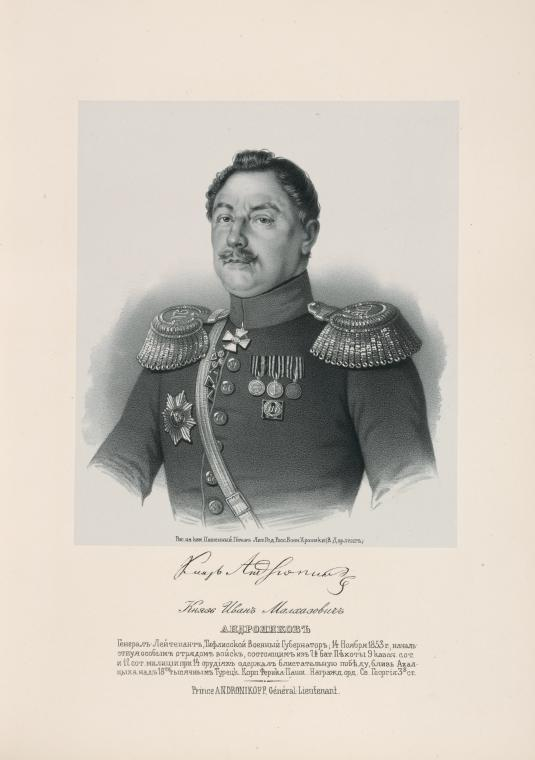 Ivane Andronikashvili (Ivan Malkhazovich Andronikov)